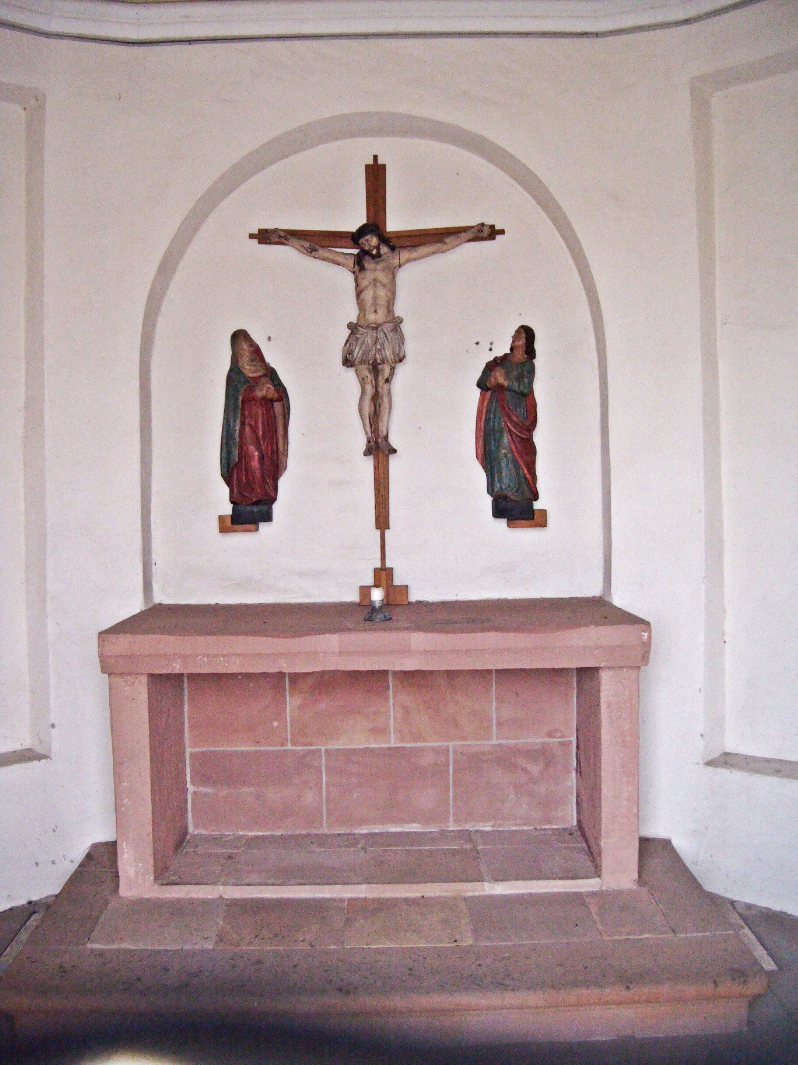 Palmberg Kapelle, Altarbereich